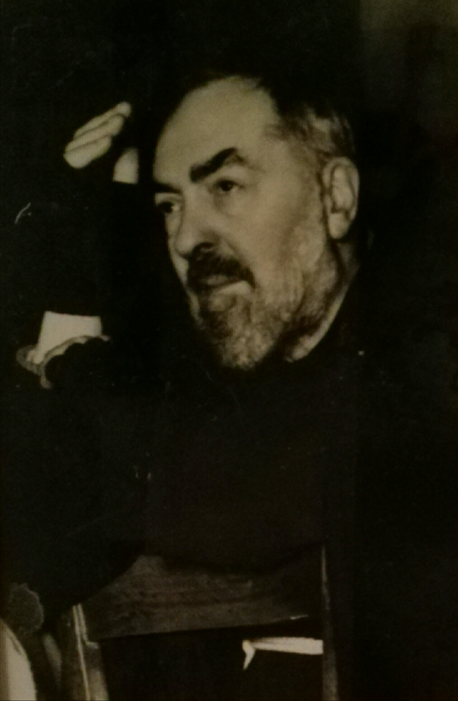 San Pio